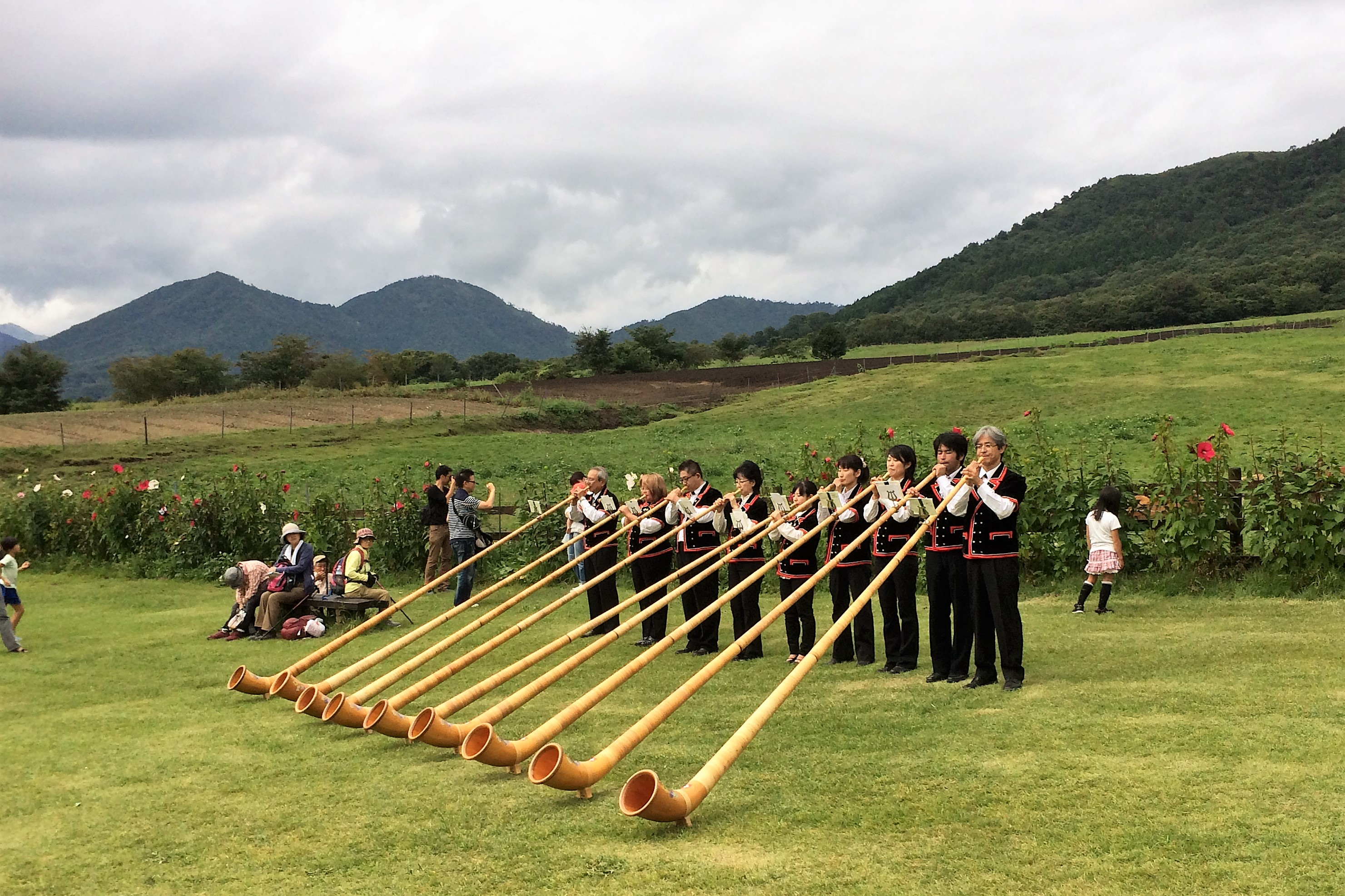 Alphorn in japan